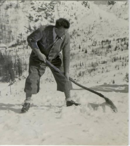 Stanko Bloudek (11 February 1890 – 29 November 1959) was a Slovenian aeroplane and automobile designer, a sportsman and a sport inventor, designer, builder and educator.